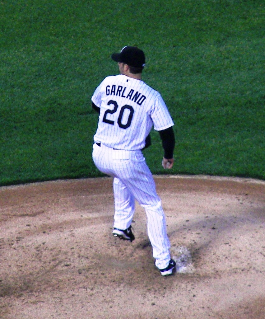 Chicago White Sox player Jon Garland playing against the Kansas City Royals at US Cellular Field. Cropped from original.